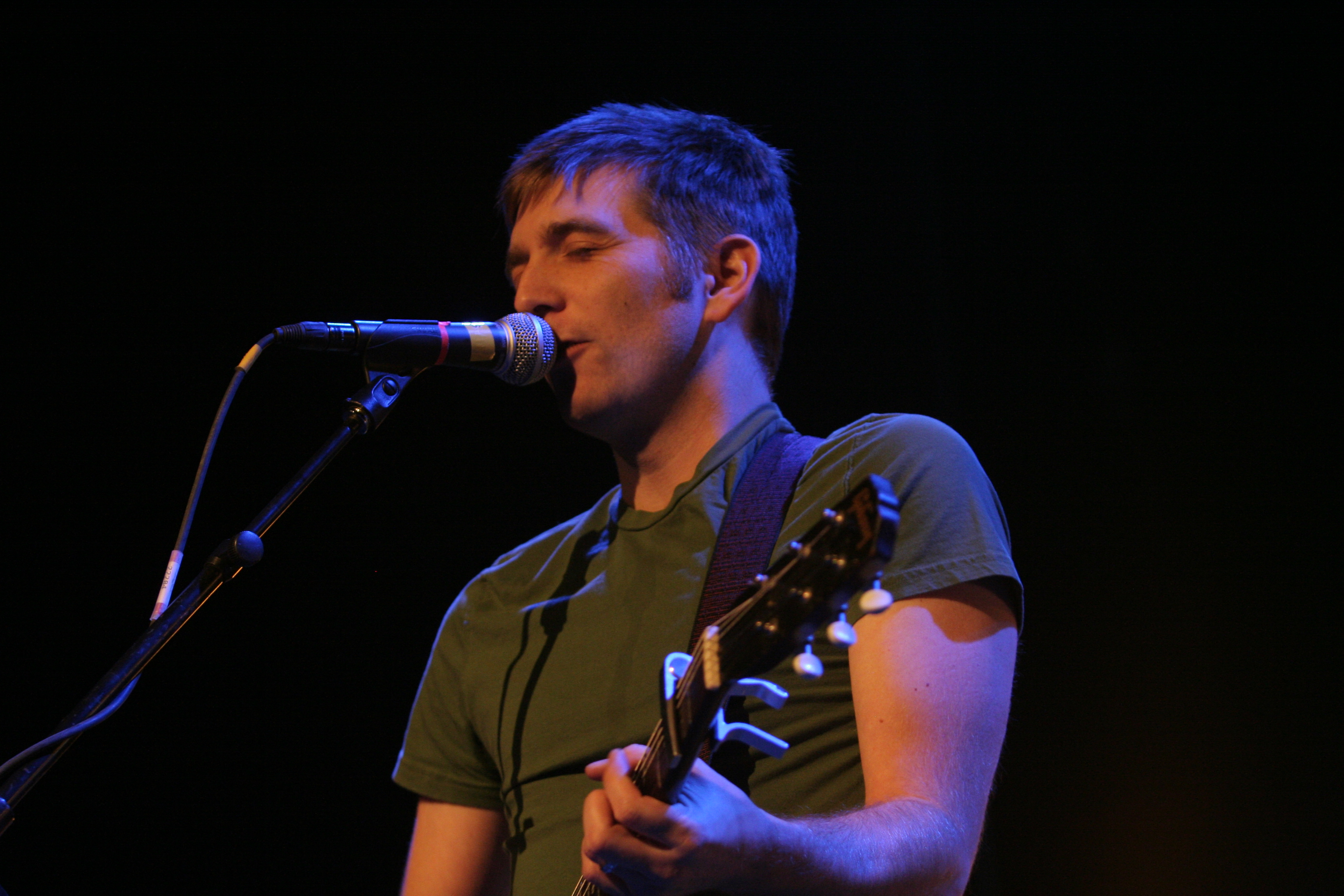 John K Samson, performing with the Weakerthans in Winnipeg, Manitoba, Canada on December 22nd, 2007 at the Burton Cummings Theatre.